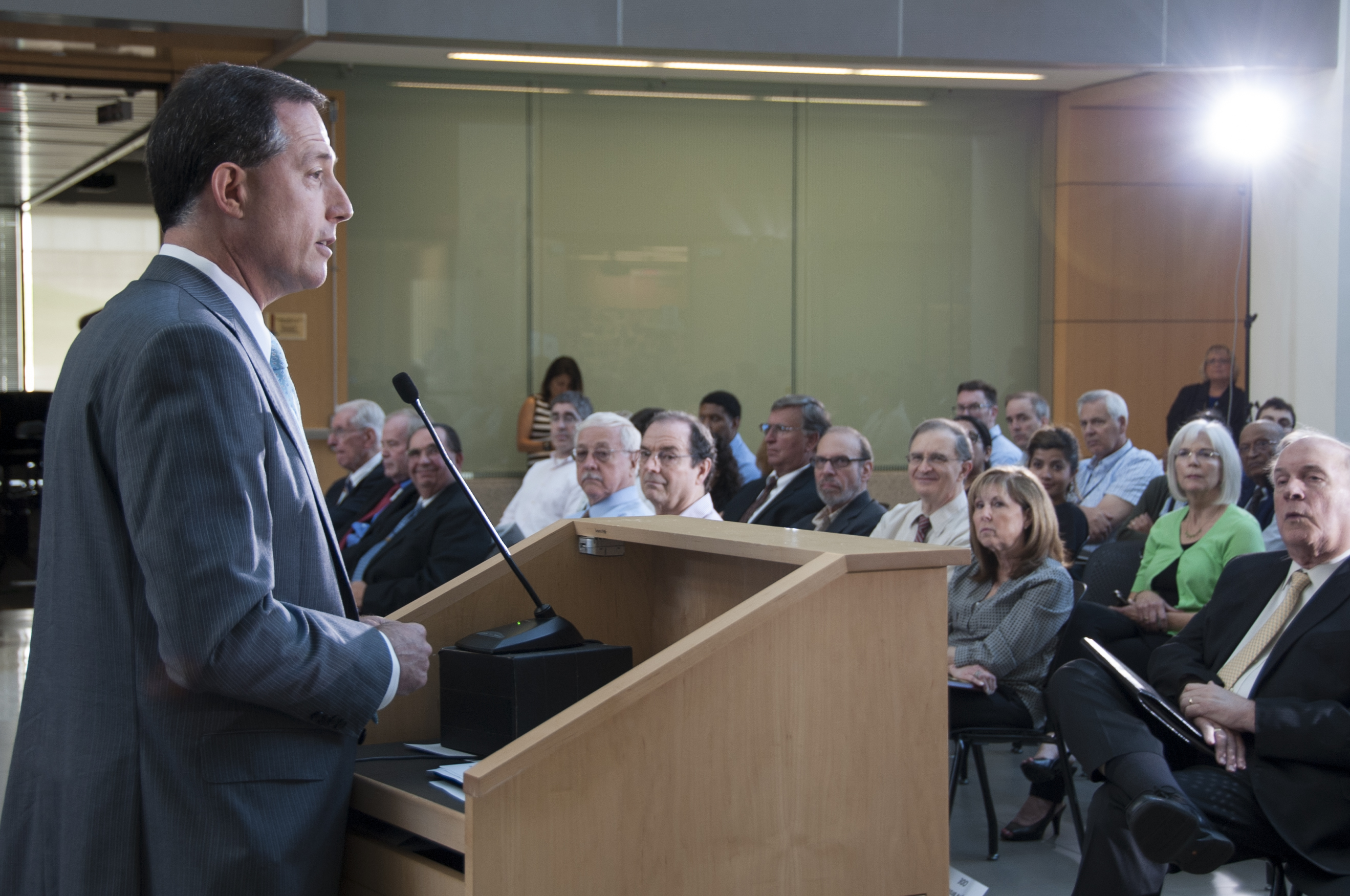 Jeffrey Shuren, M.D., J.D., FDA’s Director of the Center for Devices and Radiological Health, speaking at FDA’s Celebration of the 40th Anniversary of the Medical Device Amendments. To learn more, read Dr. Shuren's FDA Voice blog post about the event. Read additional FDA Voice blog posts by Dr. Shuren. This photo is free of all copyright restrictions and is available for use and redistribution without permission. Credit to the U.S. Food and Drug Administration is appreciated but not required. For more privacy and use information go to: FDA photo by Michael J. Ermarth